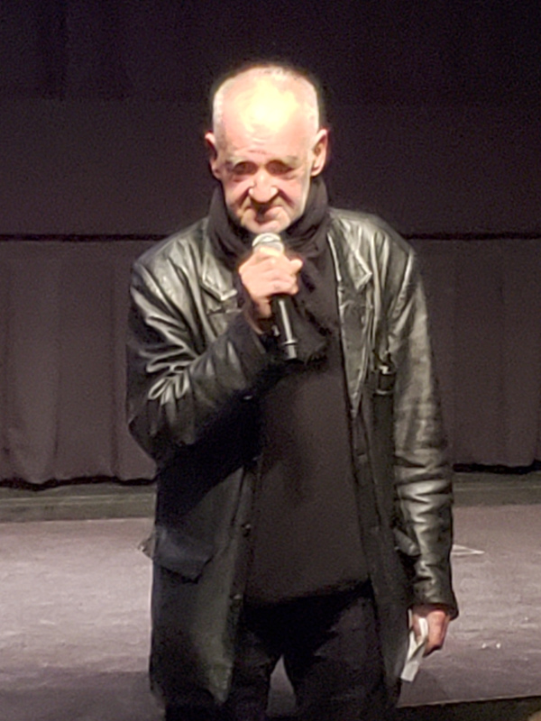 Béla Tarr presenting Man in the Well at TIFF Bell Lightbox in Toronto, Ontario, Canada